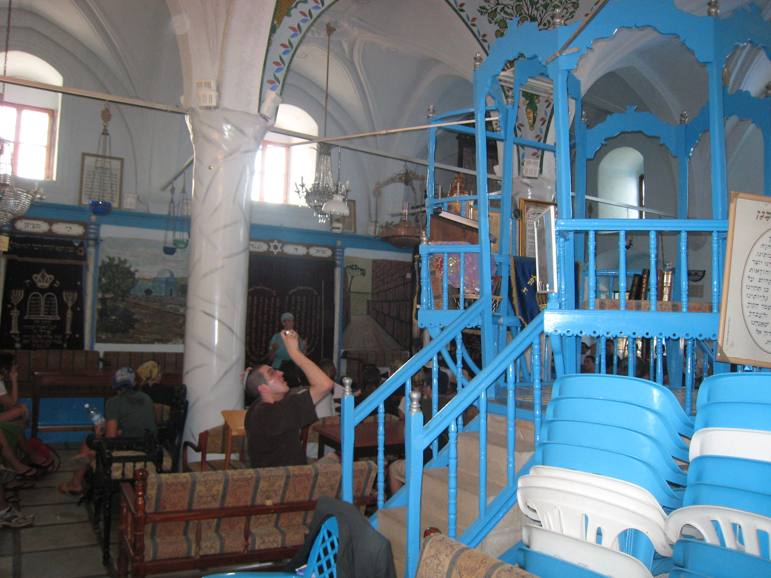 Caro Synagogue...yes it's that blue! Safed